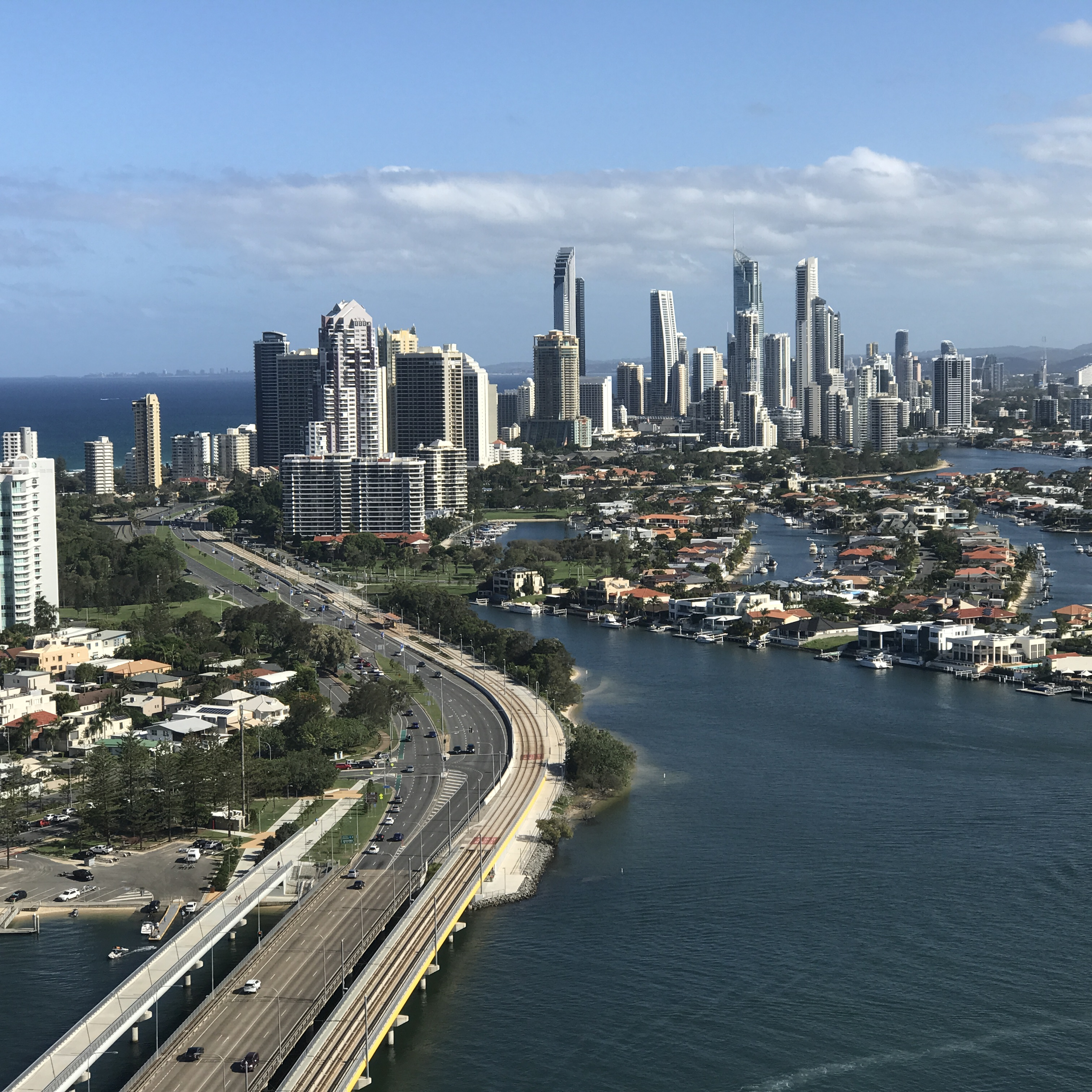 Skylines of Surfers Paradise, Queensland in January 2017